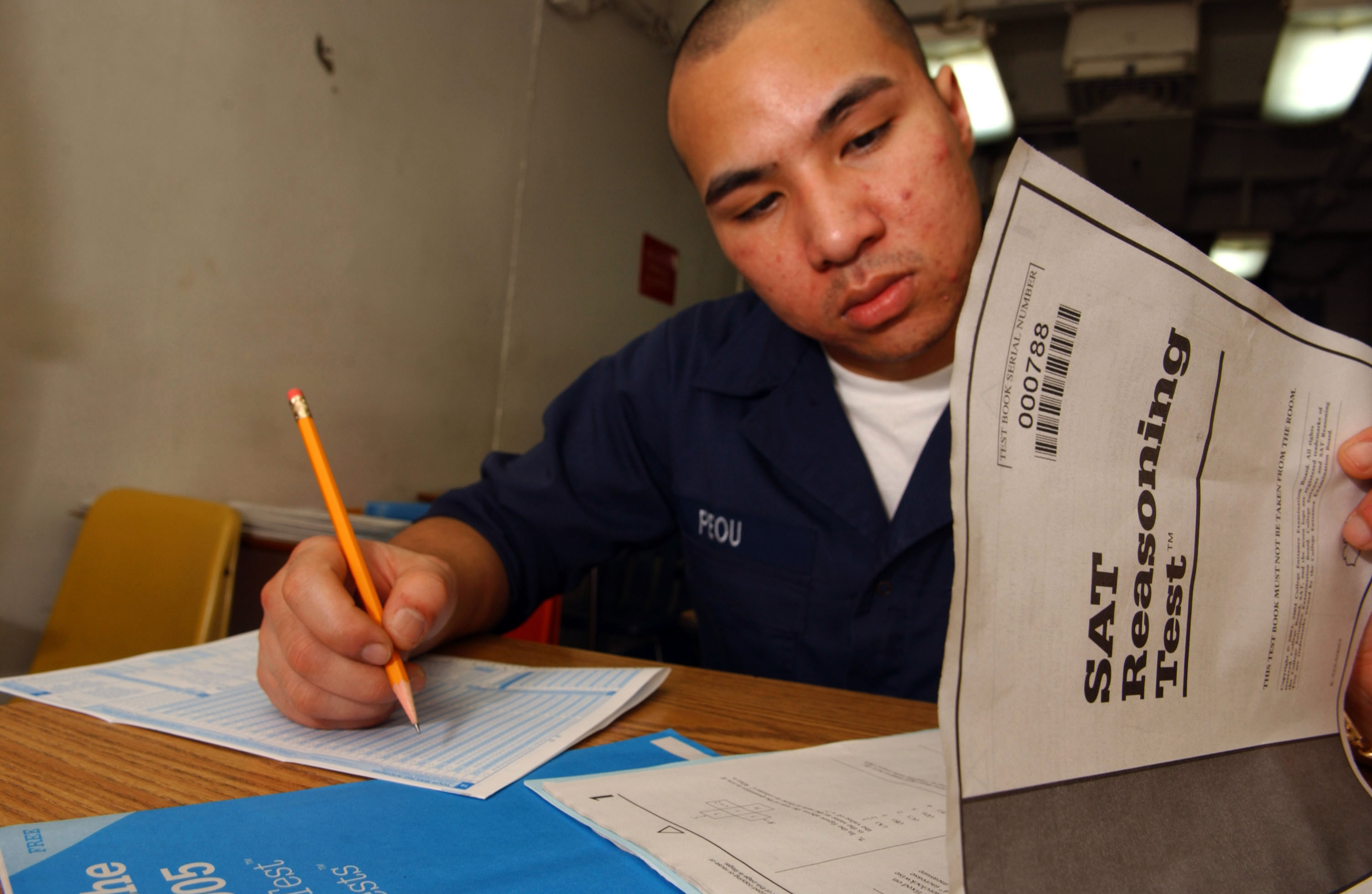 Pacific Ocean (Feb. 23, 2004) - Seaman Chanthorn Peou of San Diego, Calif., takes his Scholastic Aptitude Test (SAT) aboard the conventionally powered aircraft carrier USS Kitty Hawk (CV 63). Administering SAT's is one of the continual education services provided by Kitty Hawk's Education Service Office to assist Sailors advance their opportunities in the Navy and civilian sector. Kitty Hawk demonstrates power projection and sea control as the U.S. Navy's only forward-deployed aircraft carrier, operating from Yokosuka, Japan. U.S. Navy photo by Photographer's Mate 3rd Class Jason T. Poplin (RELEASED)